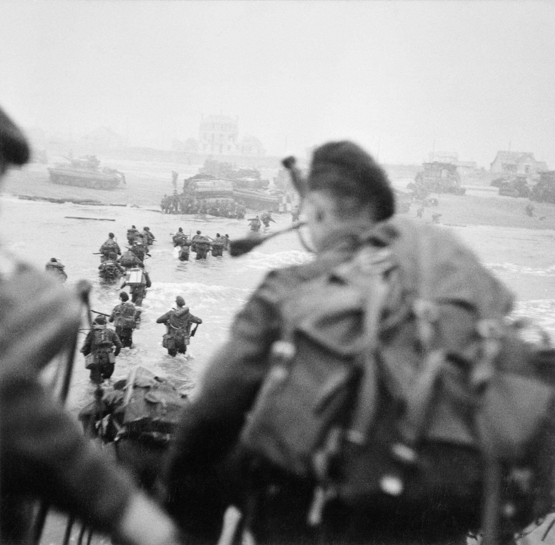 IWM caption : OPERATION OVERLORD (THE NORMANDY LANDINGS): D-DAY 6 JUNE 1944. The British 2nd Army: Commandos of 1st Special Service Brigade landing from an LCI(S) (Landing Craft Infantry Small) on 'Queen Red' Beach, SWORD Area, at la Breche, at approximately 8.40 am, 6 June. The brigade commander, Brigadier the Lord Lovat DSO MC, can be seen striding through the water to the right of the column of men. The figure nearest the camera is the brigade's bagpiper, Piper Bill Millin.